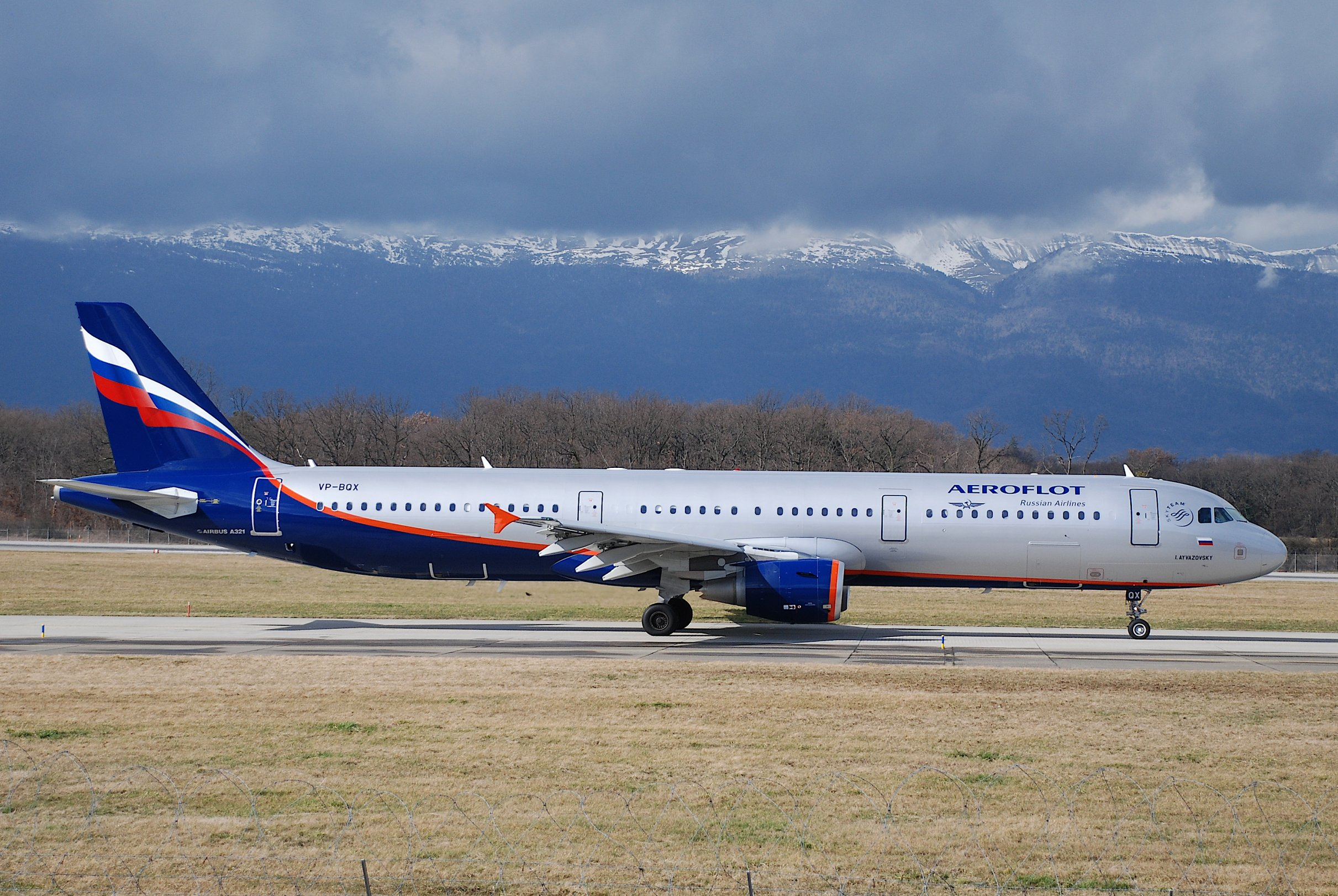 Aeroflot Airbus A321; VP-BQX@GVA;24.02.2007/451cx